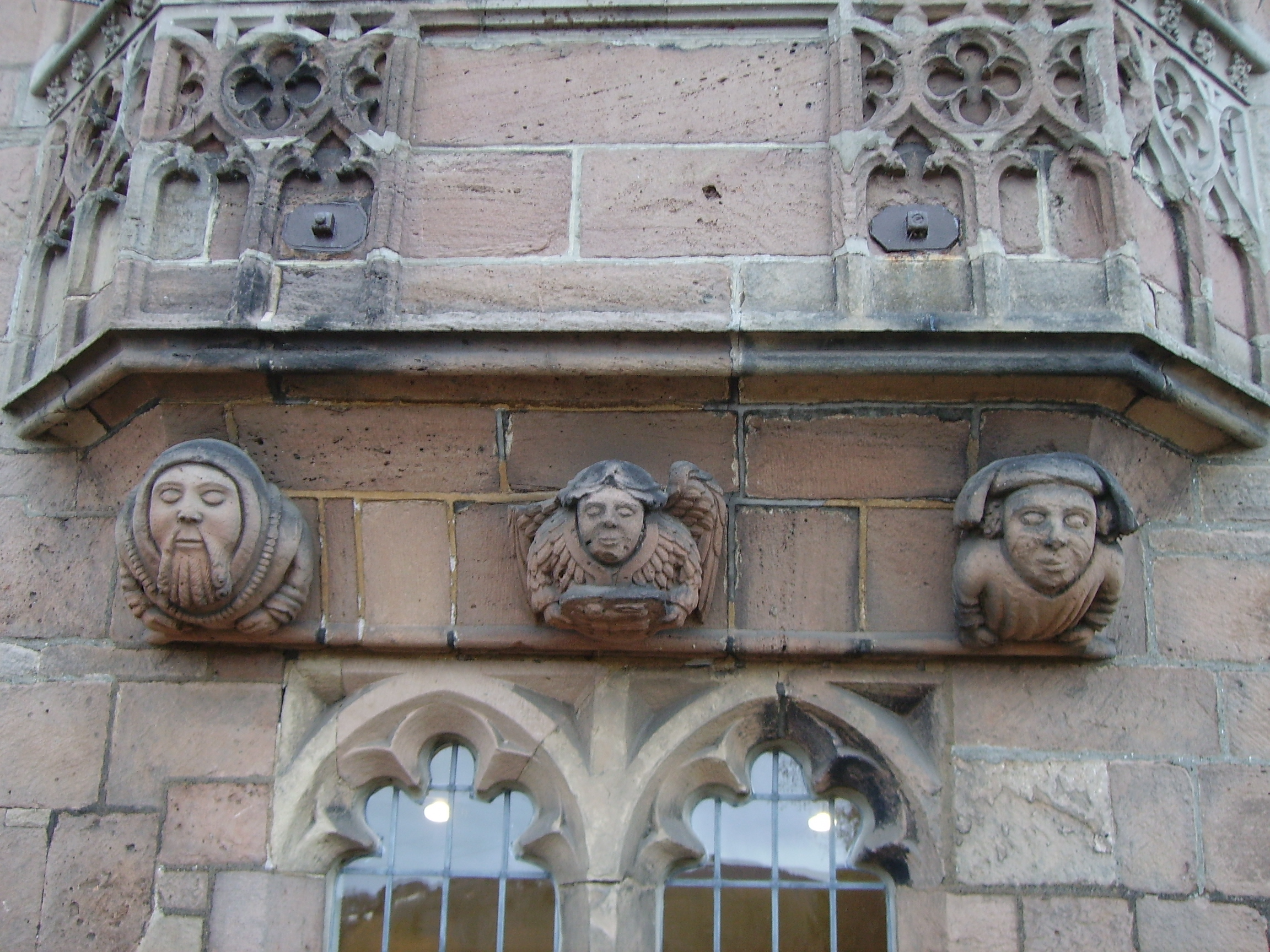 Monmouth Priory, Monmouthshire - Corbels below "Geoffrey's" window